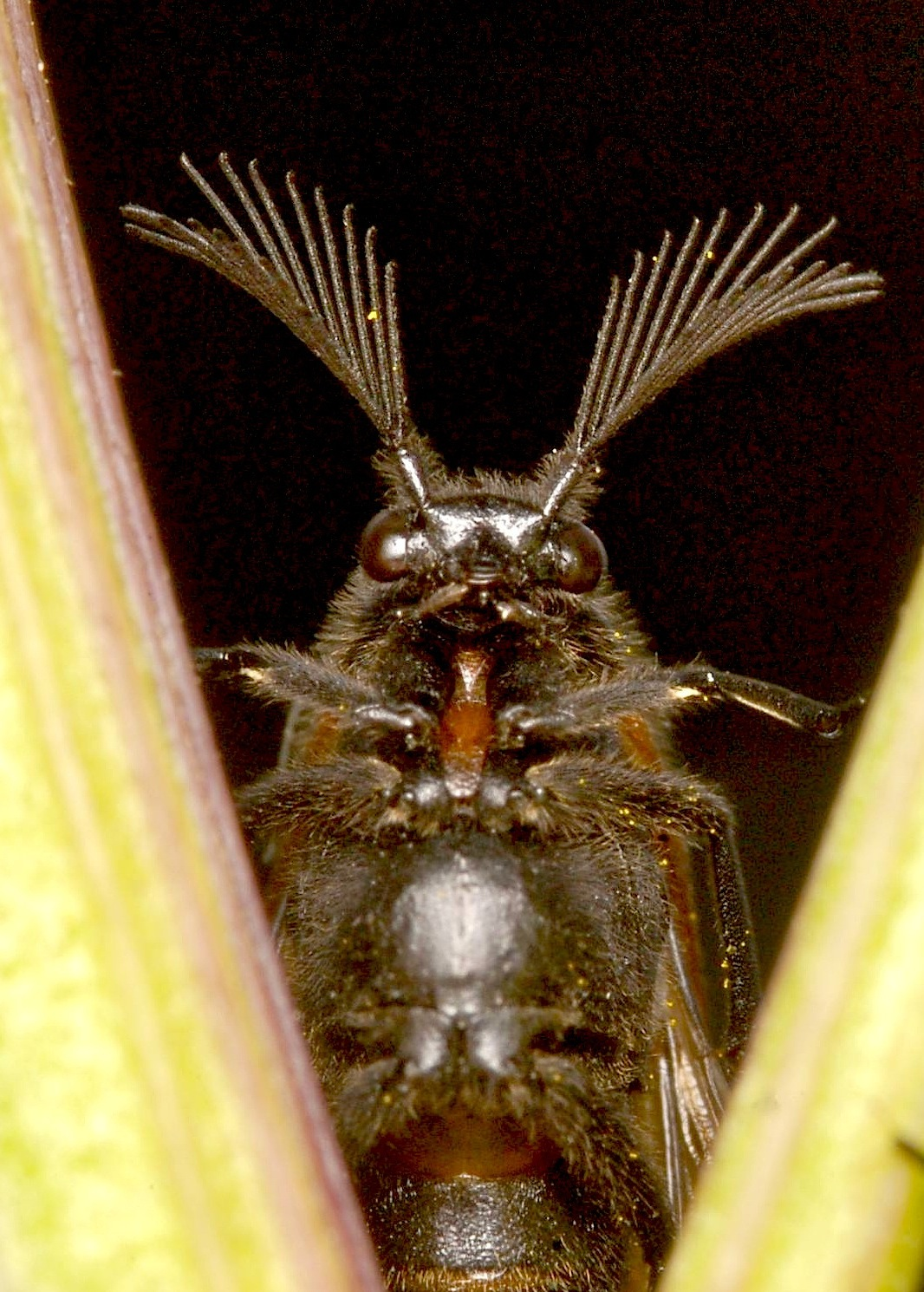 Metoecus paradoxus